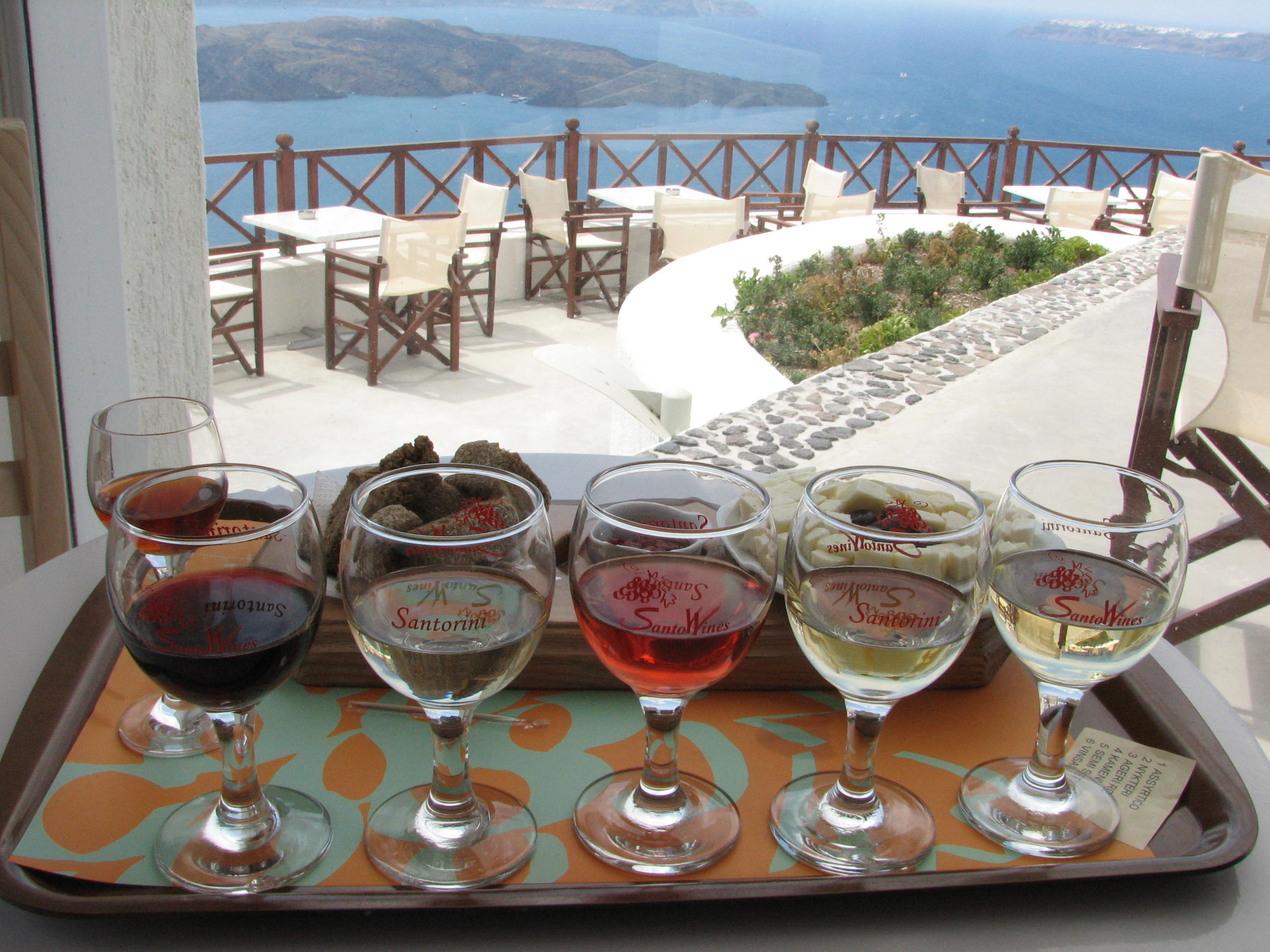 Several examples of Greek wines from Santorini ranging from whites with no oak, slightly oaked whites, roses and red wines.